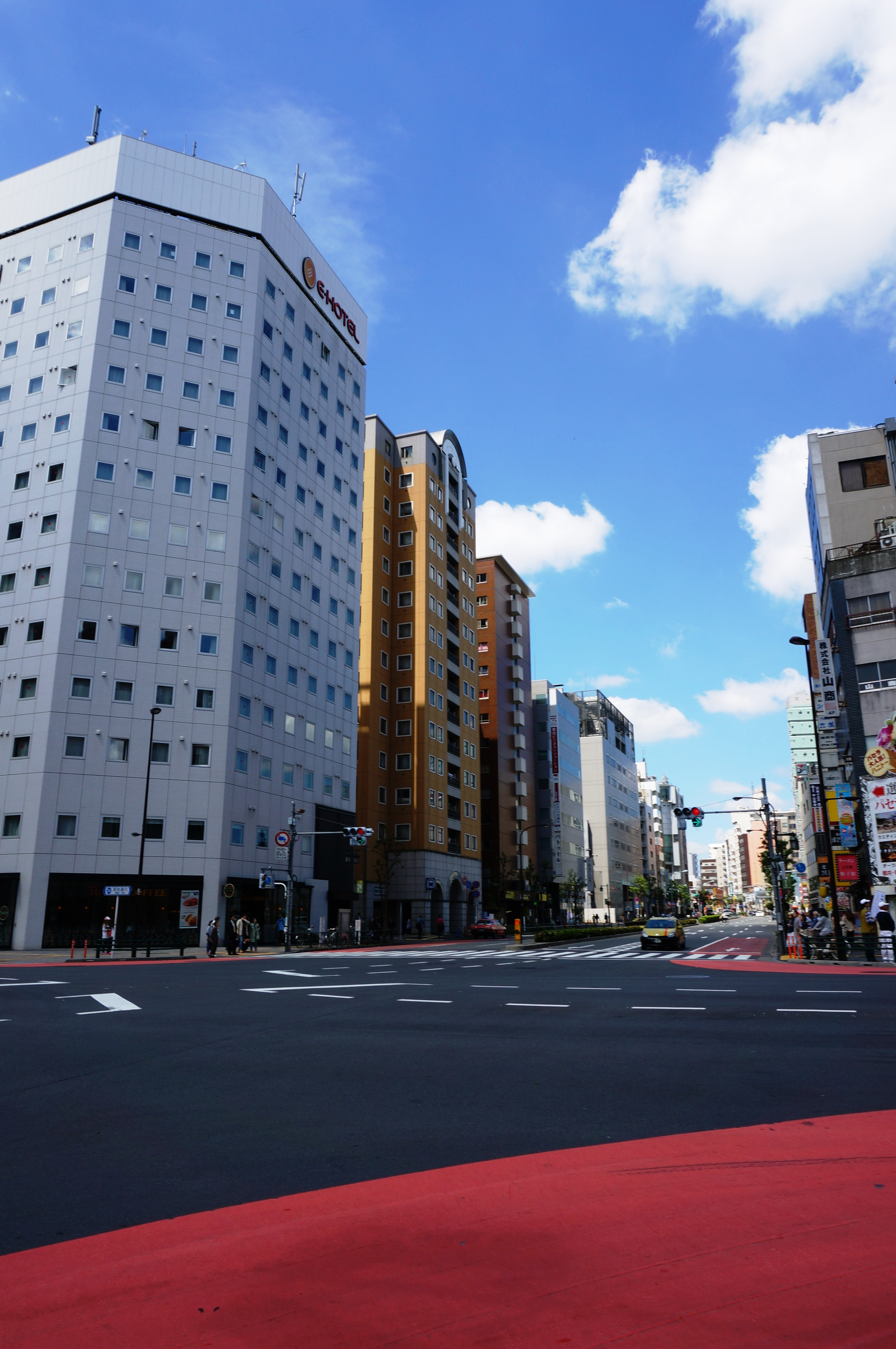 HigashiShinjuku Station A2 Exit